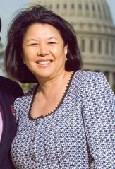 Irene Hirano circa 2009.